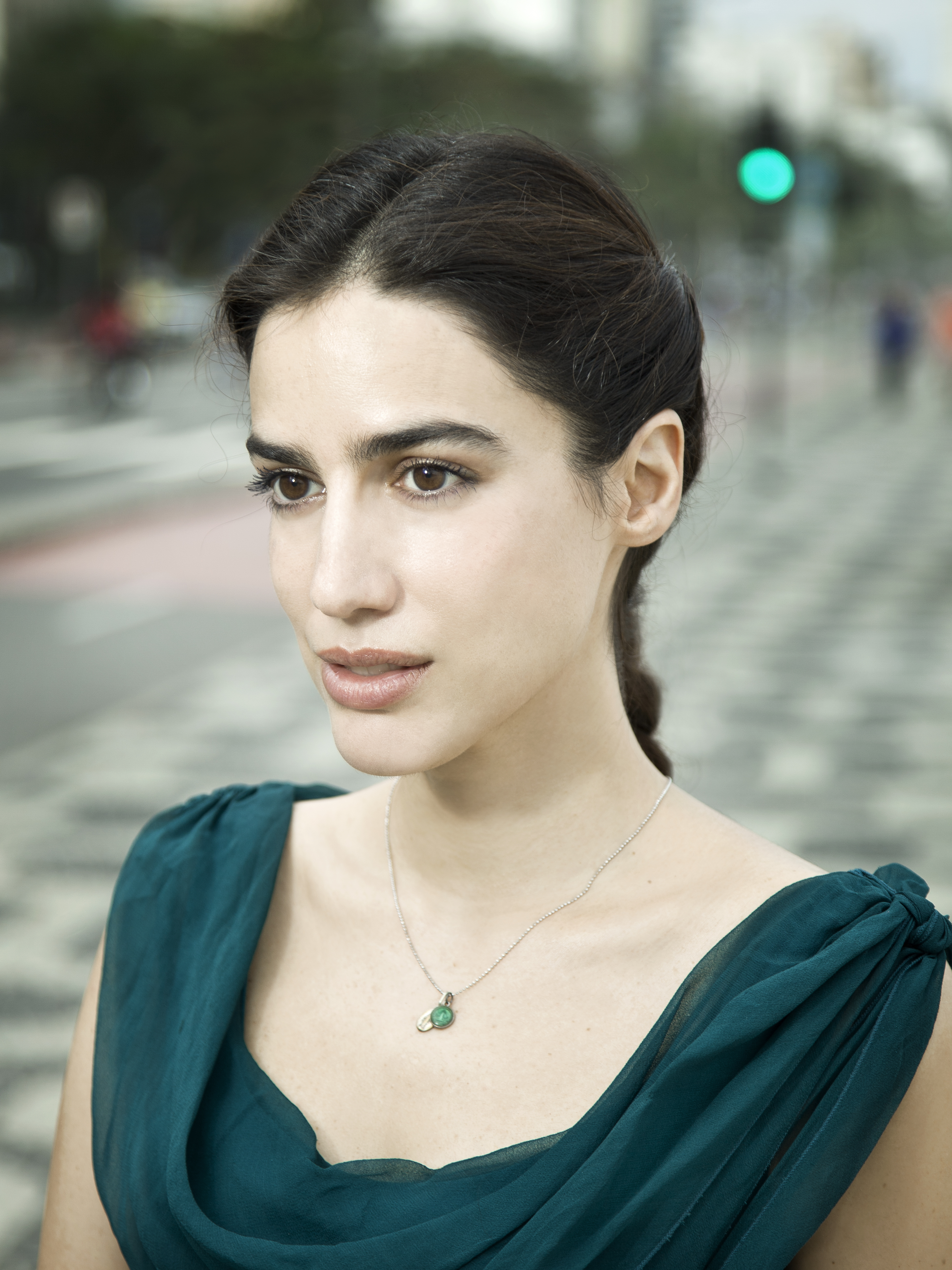 Lila Azam Zanganeh on the sidewalk in NYC near The Metropolitan Museum of Art in June of 2013